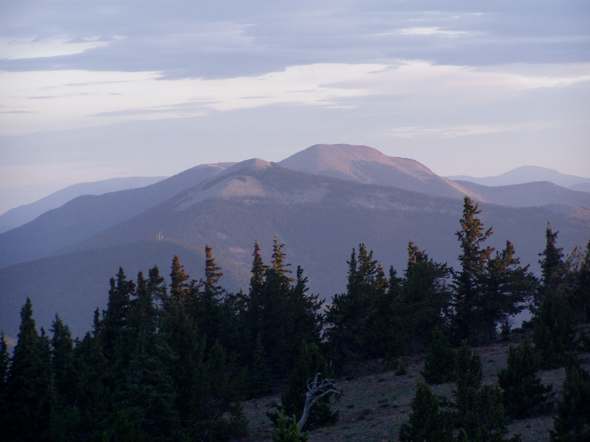 uploaded for use in Philmont Scout Ranch article. possible replacement of original Baldy Mountain pic but another user requested upload so they could see it. image available for use anywhere on wikimedia projects. created by user preschooler.at.heart .